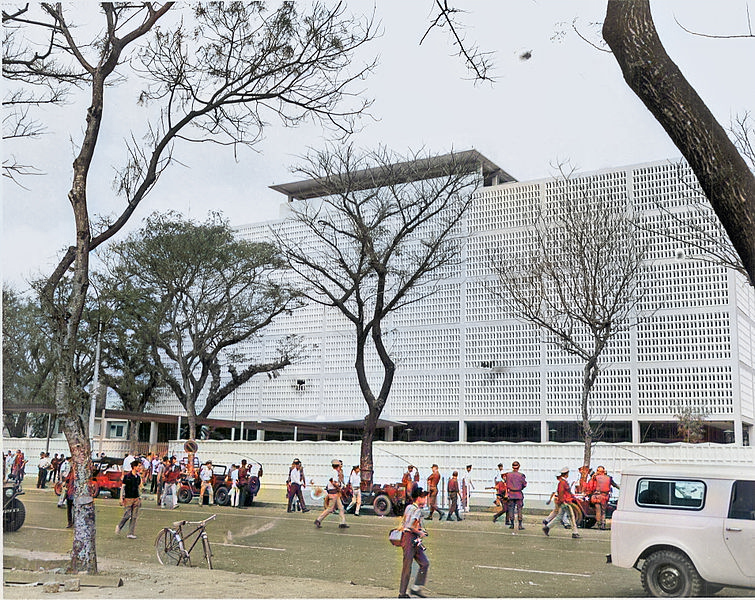 The attack upon the US embassy in Saigon during the Tet Offensive was one event that left an indelible impression upon the minds of the American public